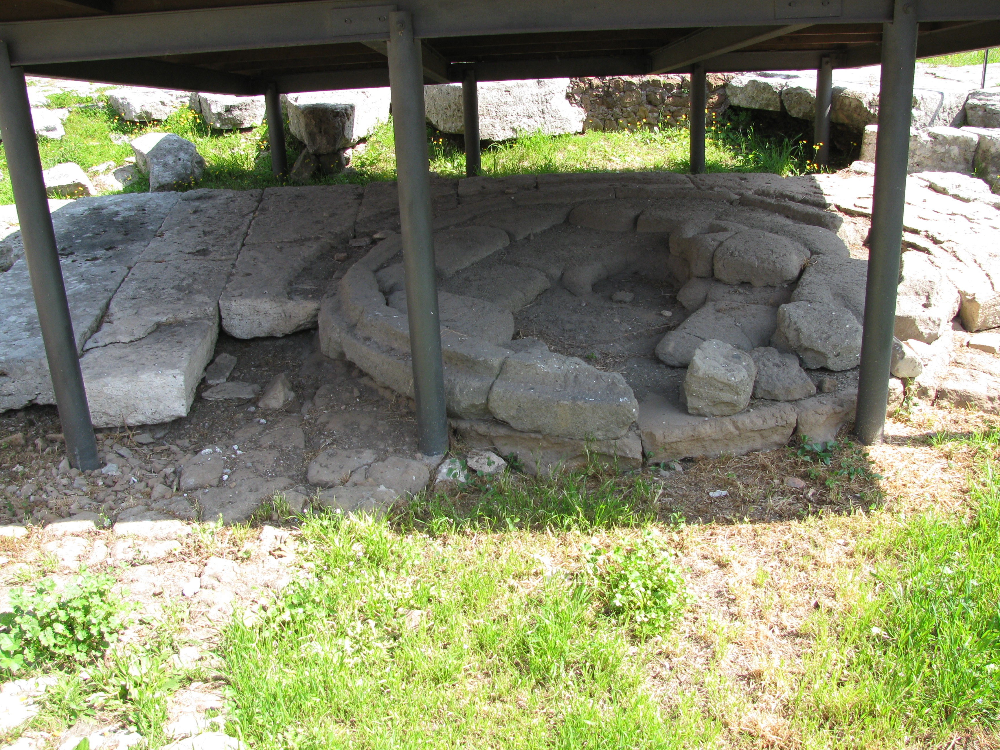 old forum, monument so-called Lacus Curtius